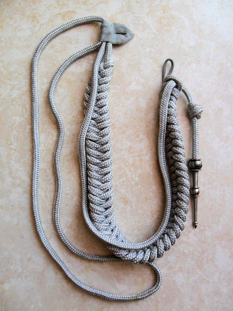 rope officer